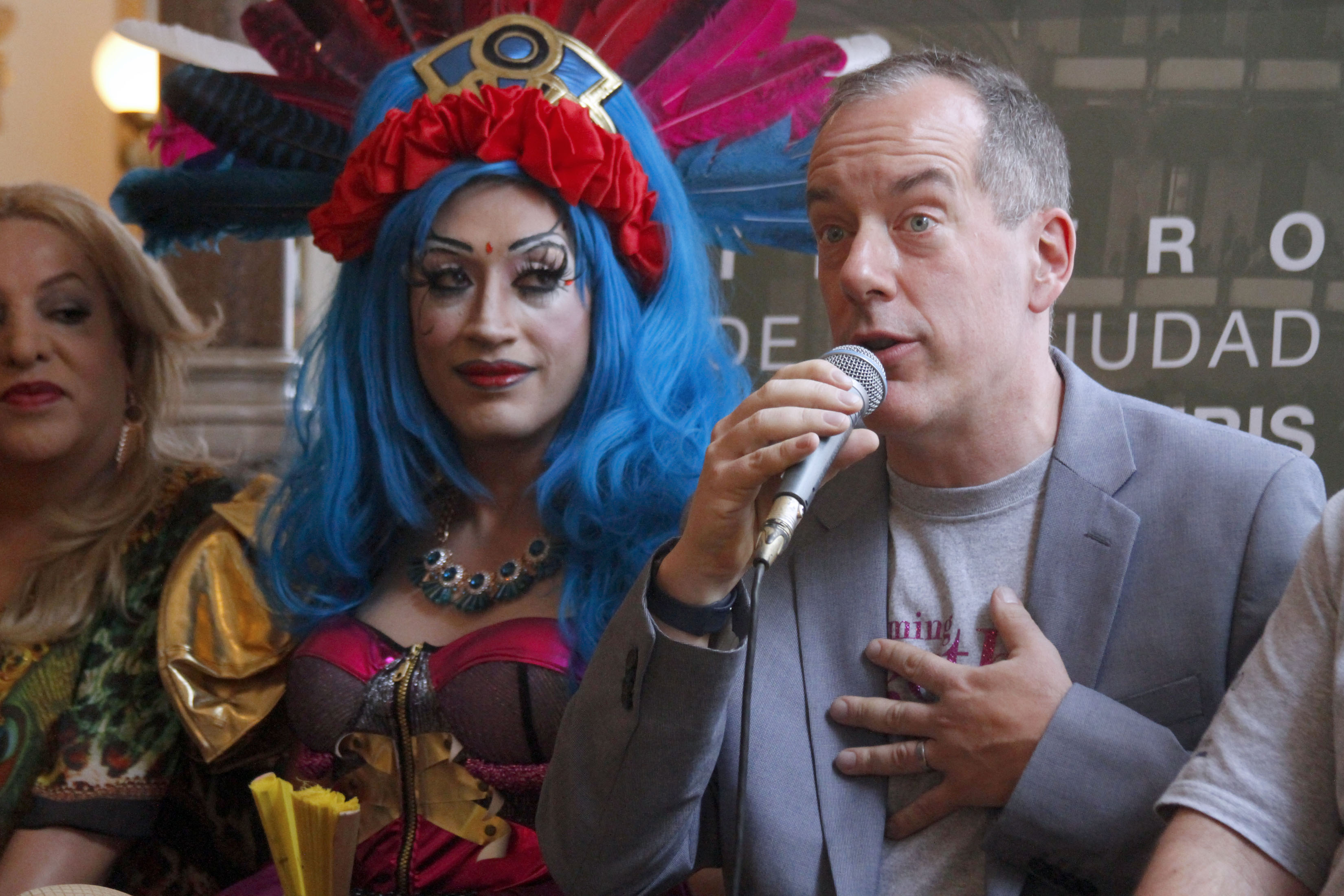 Charlie Beale, Artistic Director of New York City Gay Men’s Chorus on a press conference in Mexico City on 23rd May, 2018.